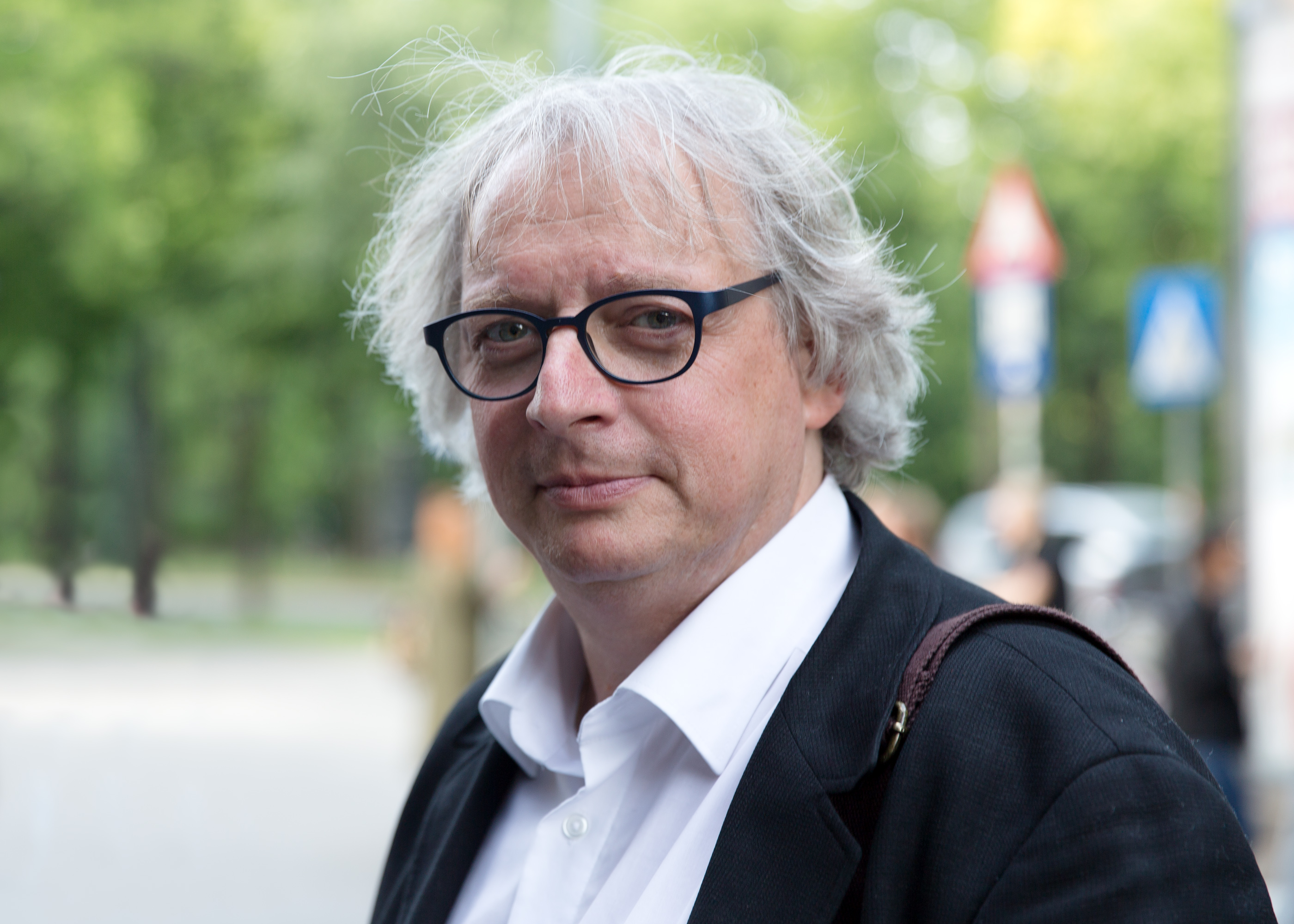 Film producer Danny Krausz at Vienna Independent Shorts 2016 (Gartenbaukino, Vienna, Austria).